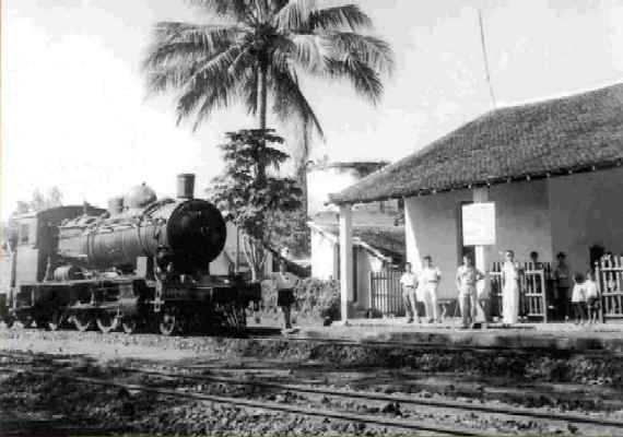 Loc Ninh station on the Sai Gon-Loc Ninh railway line, during French colonization of Vietnam.